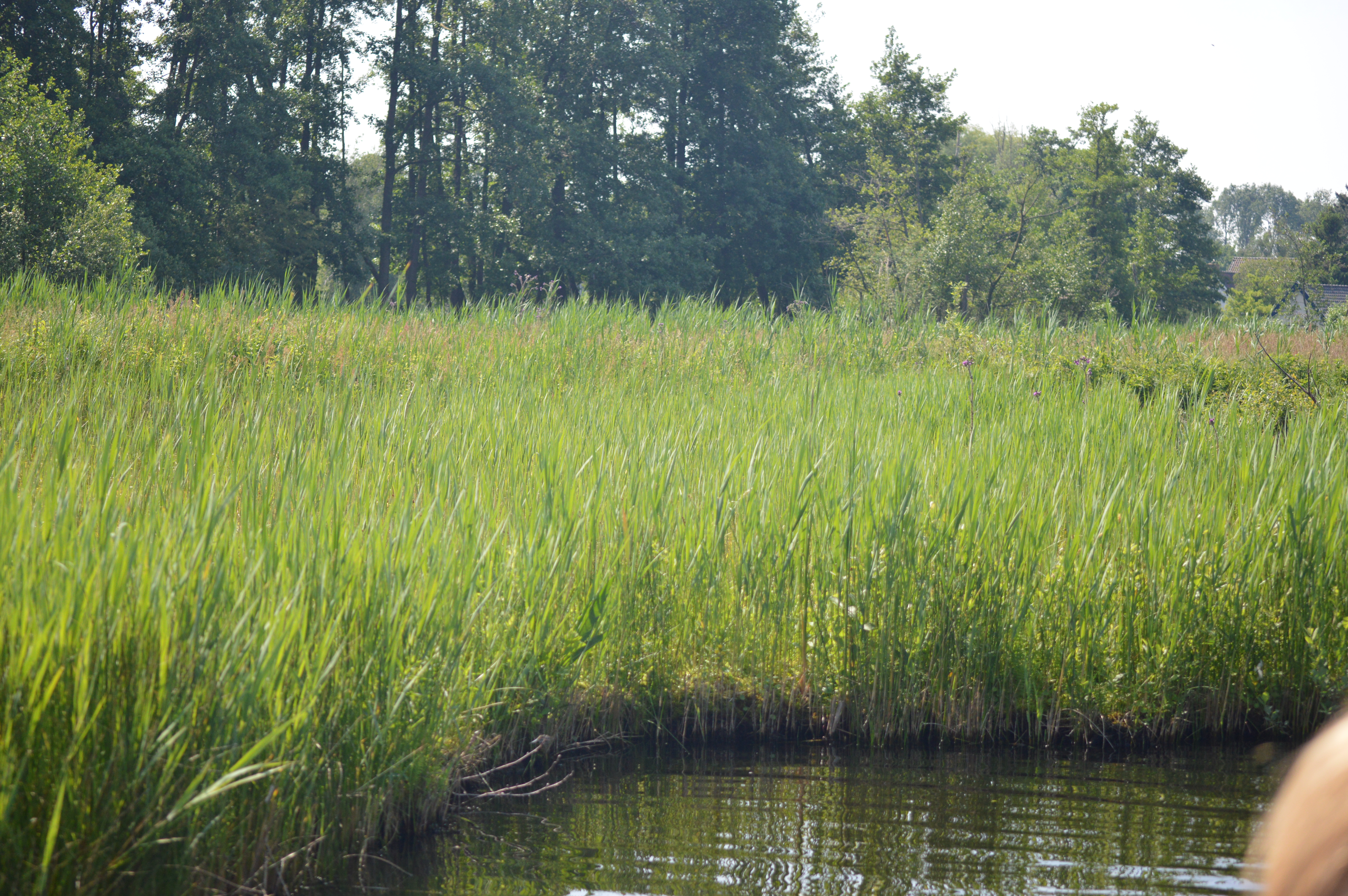 The characteristic ecosystem of de Molenpolder: floating mats.